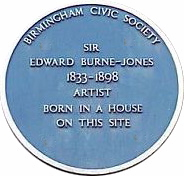 Blue plaque erected by The Birmingham Civic Society on 11 Bennett's Hill, Birmingham (the place of Sir Edward Burne-Jones birth) This image represents an Open Plaques entry #1548.